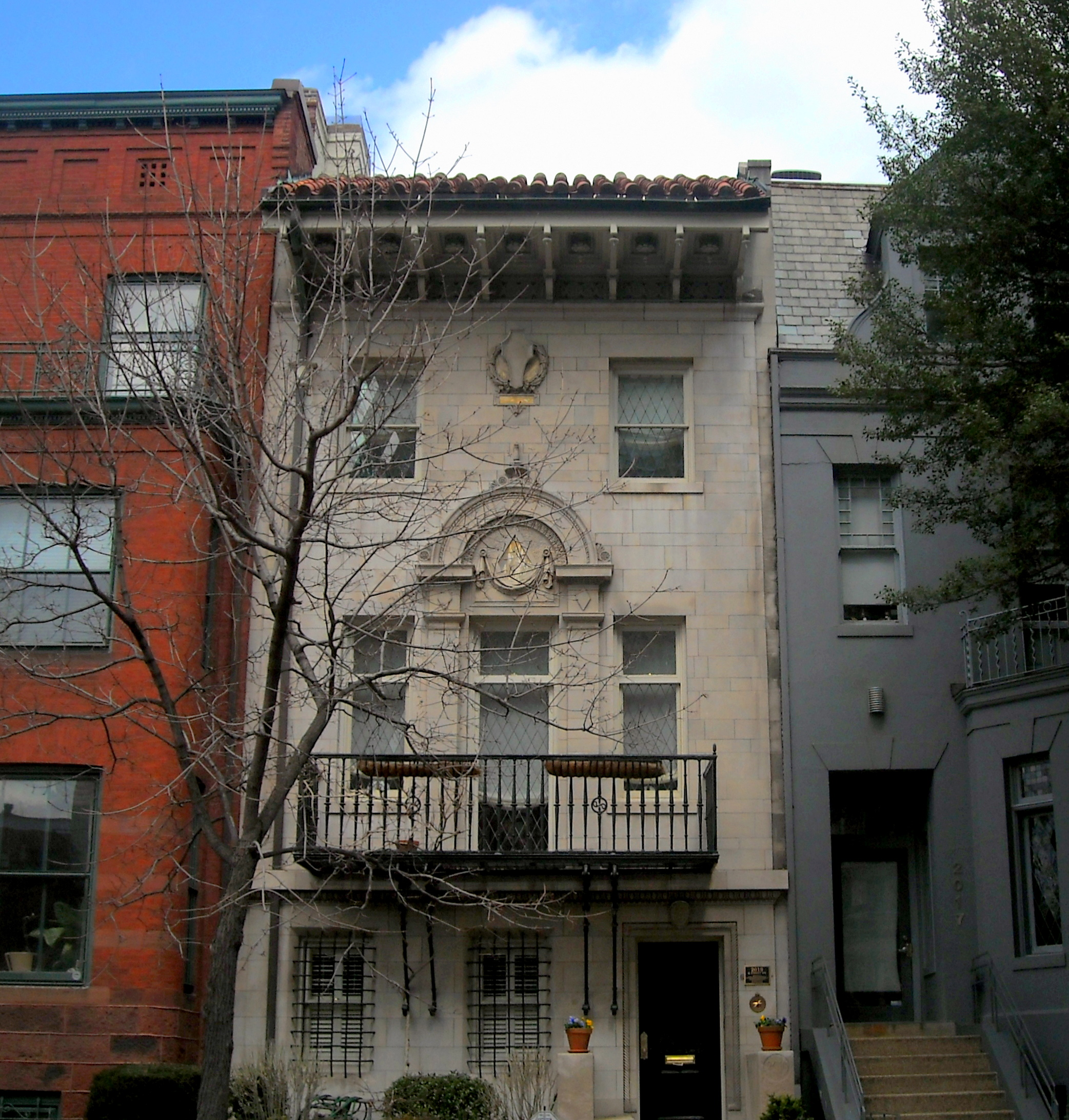 The former residence of noted architect Waddy Butler Wood, located at 2019 Q Street, N.W., in the Dupont Circle neighborhood of Washington, D.C. Designed by Wood in 1910, the Mediterranean Revival-style building is designated as a contributing property to the Dupont Circle Historic District, listed on the National Register of Historic Places in 1978. From 1964 to 1968, the building housed the Malawian embassy. The property currently serves as offices for Kae Dakin Consulting, Our Nation's Capital, and Citizens for Civil Discourse.